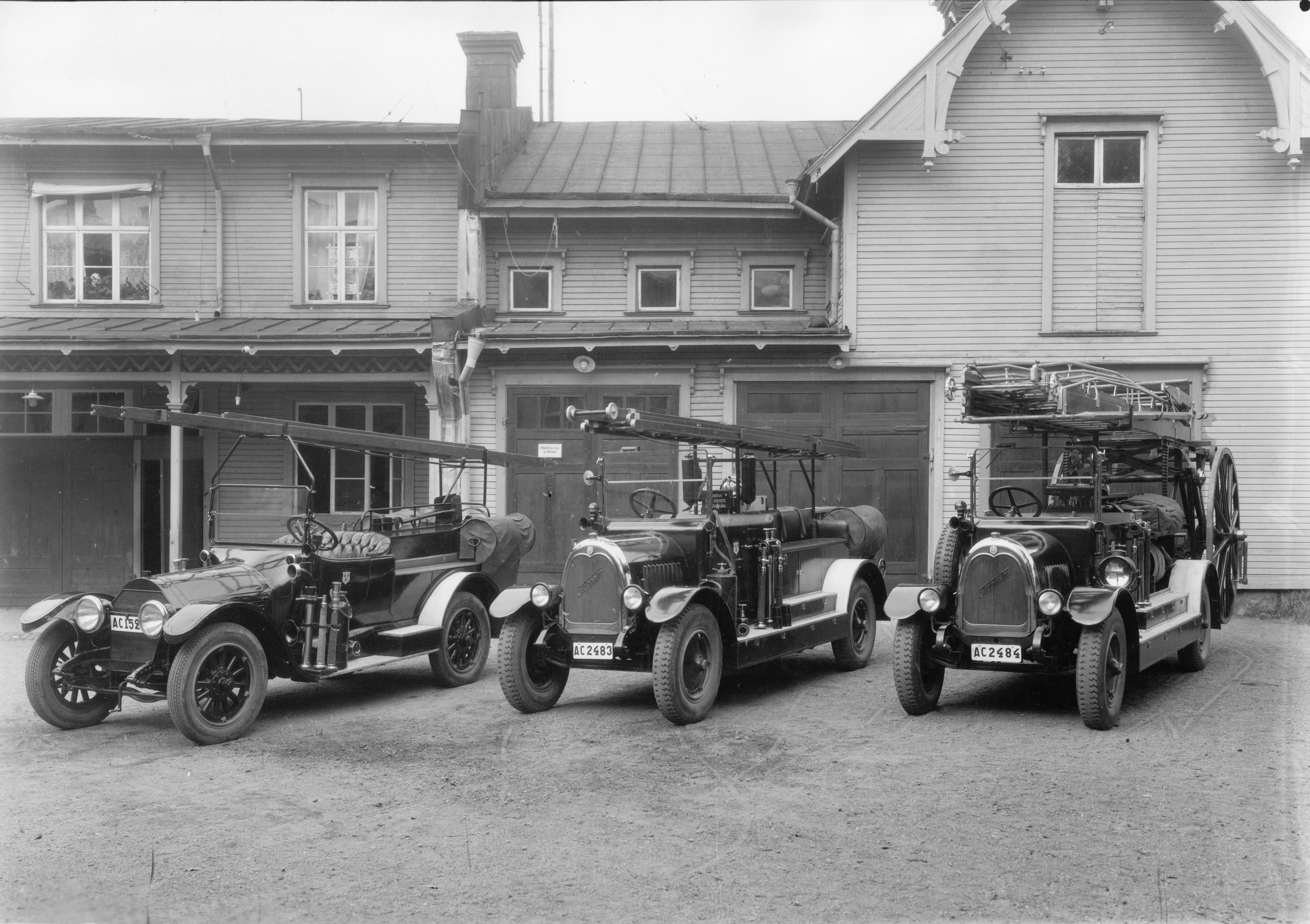 The old fire station at Rådhusesplanaden. Moritzska estate outbuildings, with the city's first fire trucks in the late 1920s.